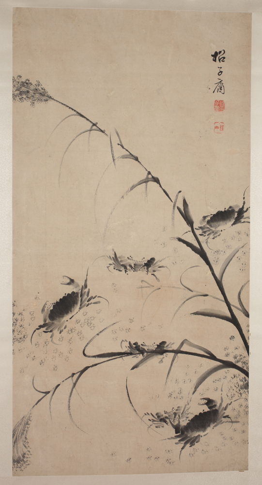 Reed and crabs, Ink Painting, Zhao Ziyong Housed at Shenzhen Museum